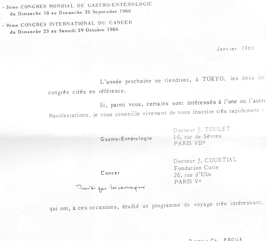 Pr Courtial was an expert about Cancer.